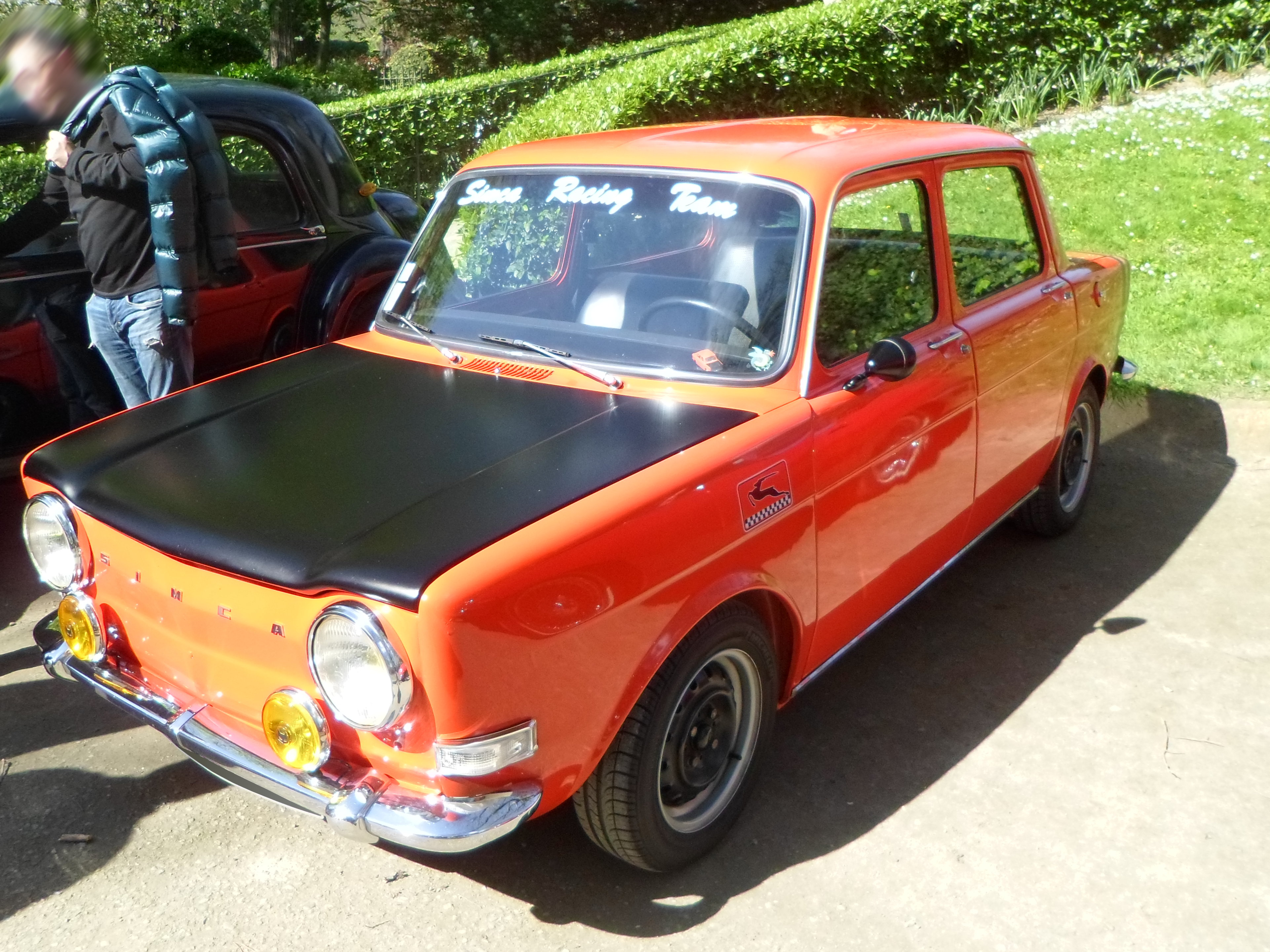 From February to September 1970 (fr), the very first Simca 1000 Rallye cars had a "SIMCA" monogram that spread out on the whole face, between the headlamps. (Picture shot during the monthly meeting organized by the Cercle des Automobiles Disparues - Le Grand Rond, Toulouse - 06/04/14)